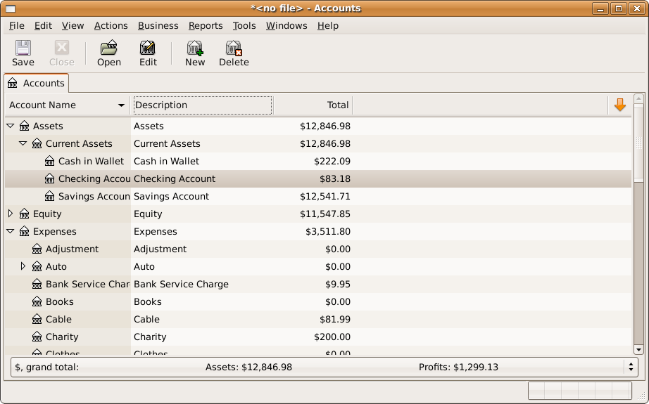 Screenshot of GnuCash 2.0.2 under Ubuntu GNU/Linux